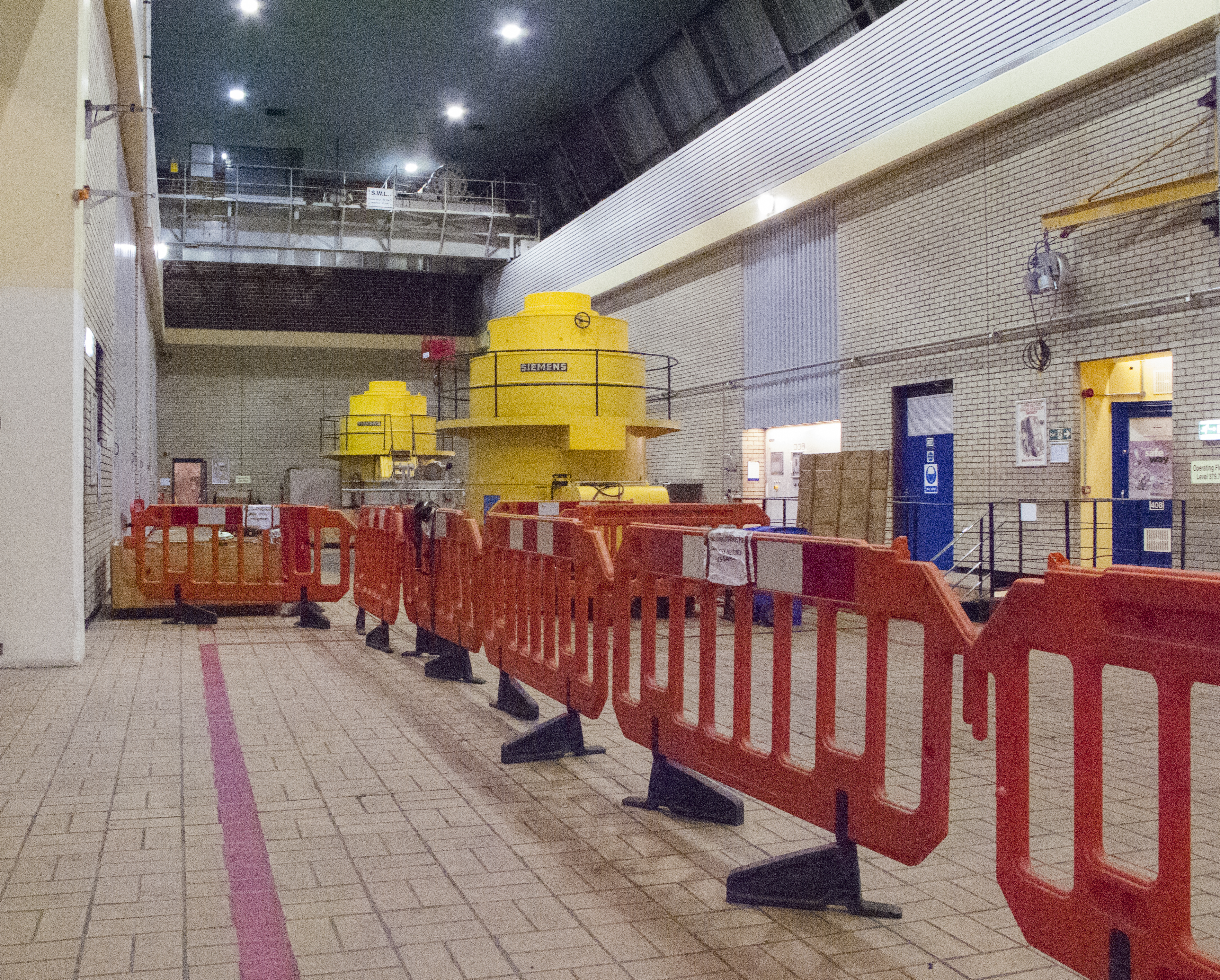 October 2014